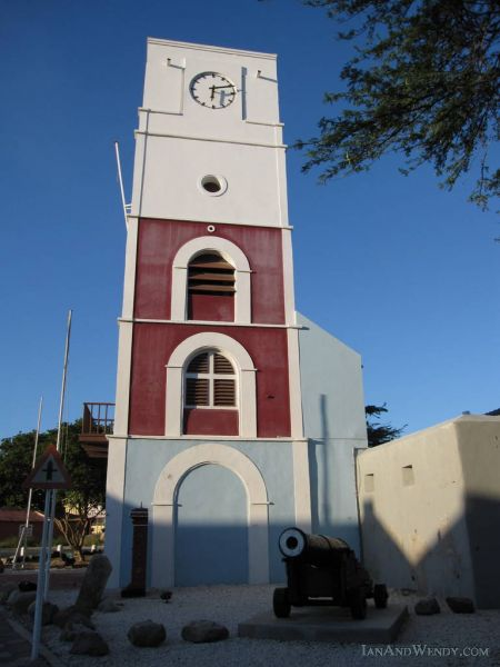 For more pictures, please Own photo, from website. Willem III Fort Tower in Oranjestad Own photo, from website. More at